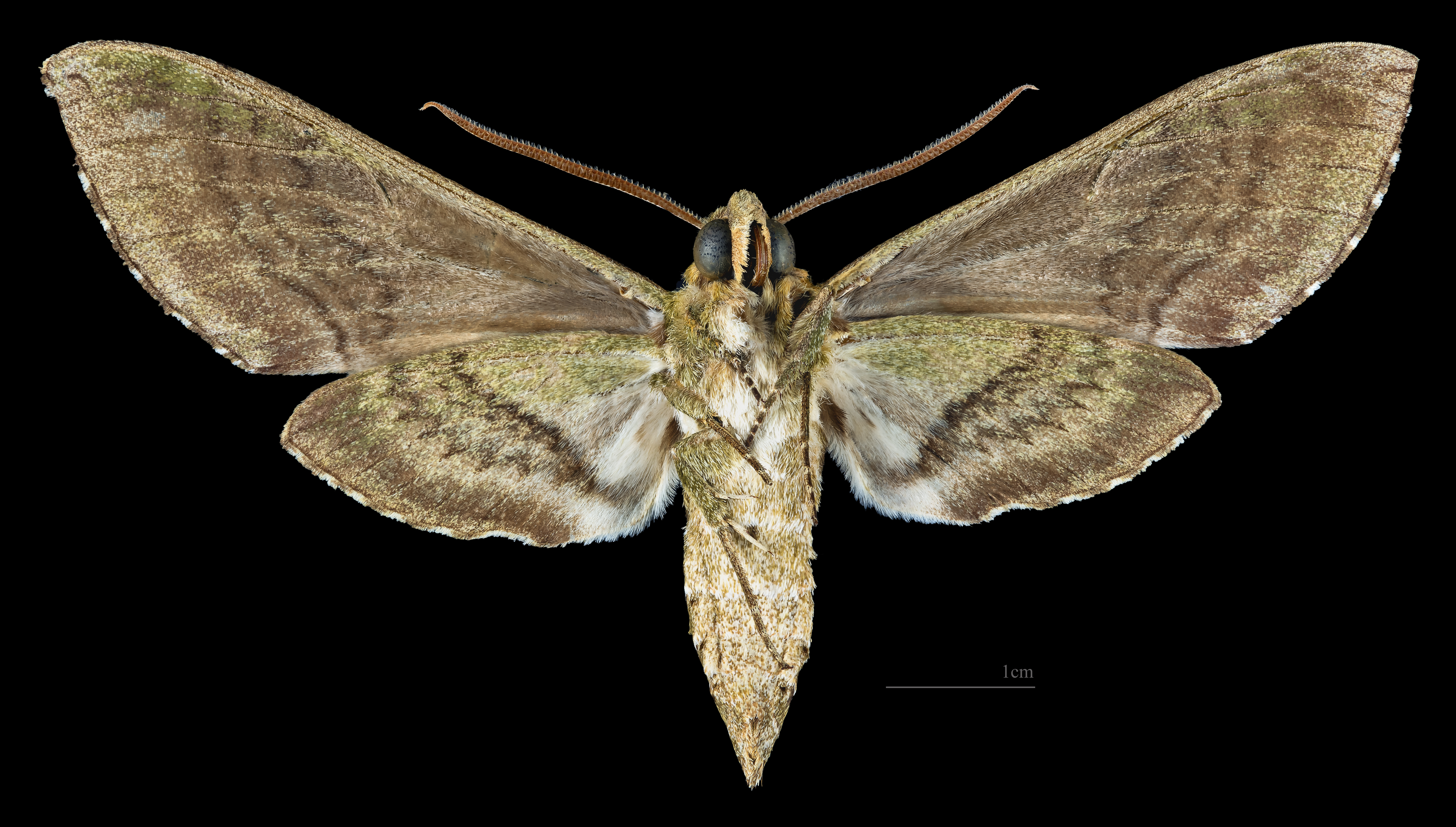 Manduca afflicta - △ Ventral side Collection of the Mathematician Laurent Schwartz